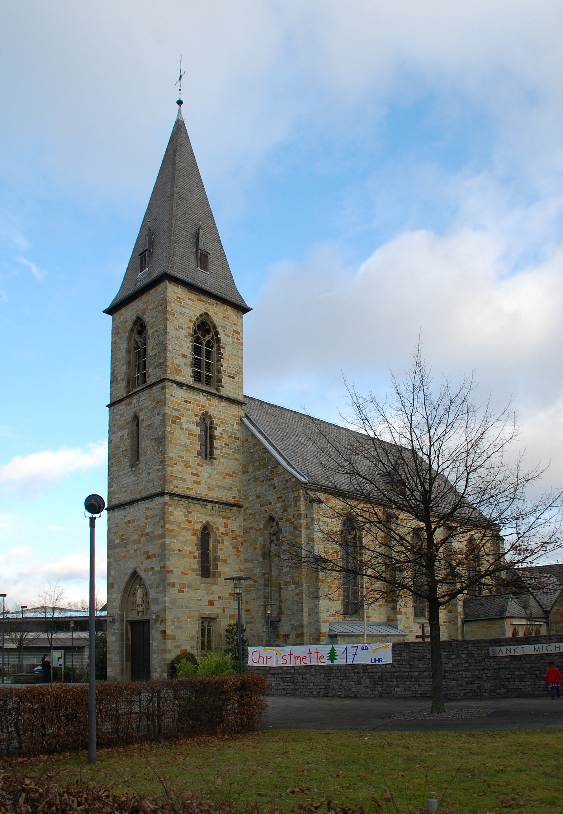 Catholic church St. Michael in Lipperode, Lippstadt, Germany